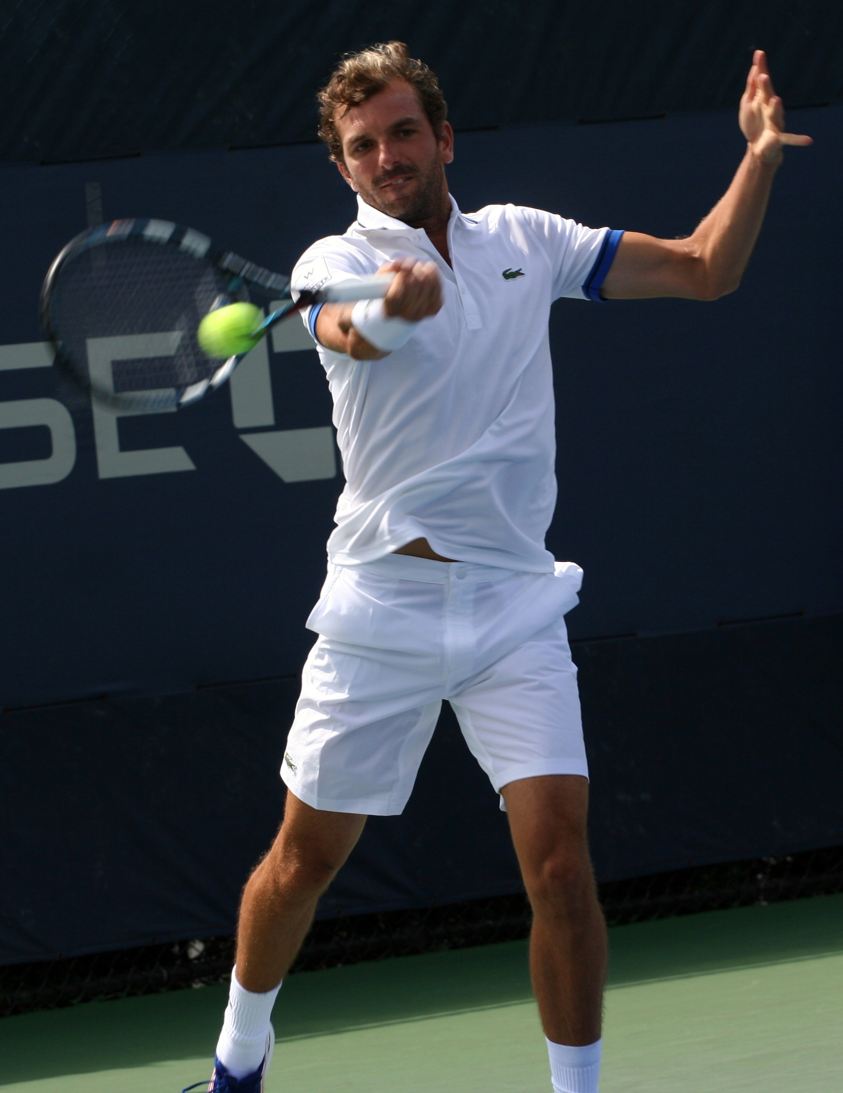 Tuesday, August 27